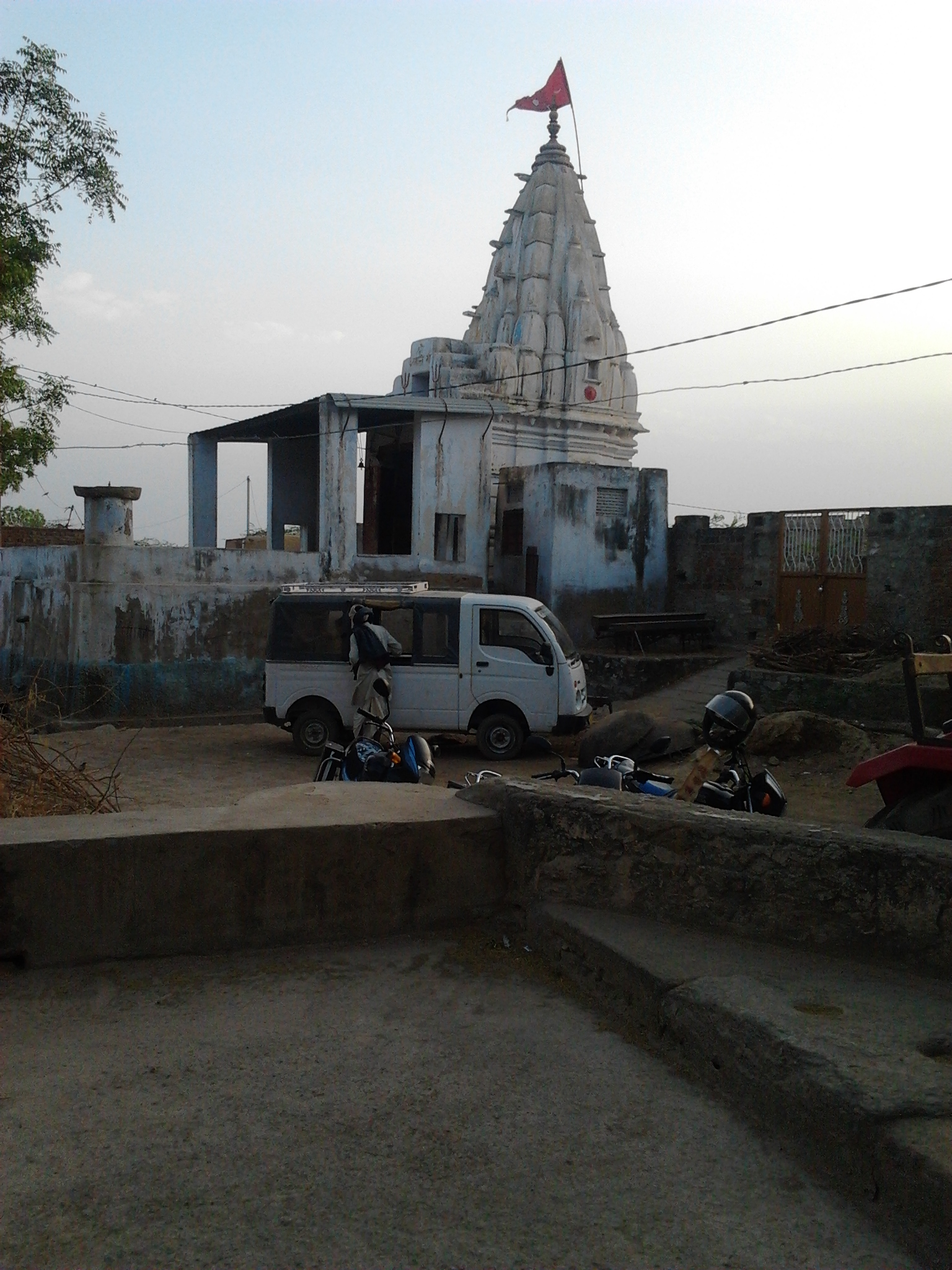 it is a ancient temple of jyanti mata [kali mata] located at kacholiya